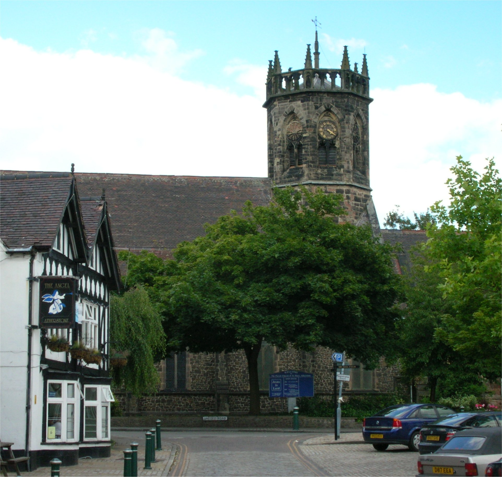 Church of St Mary, Atherstone, Warwickshire, England. Photographed by me 8 July 2007. Oosoom